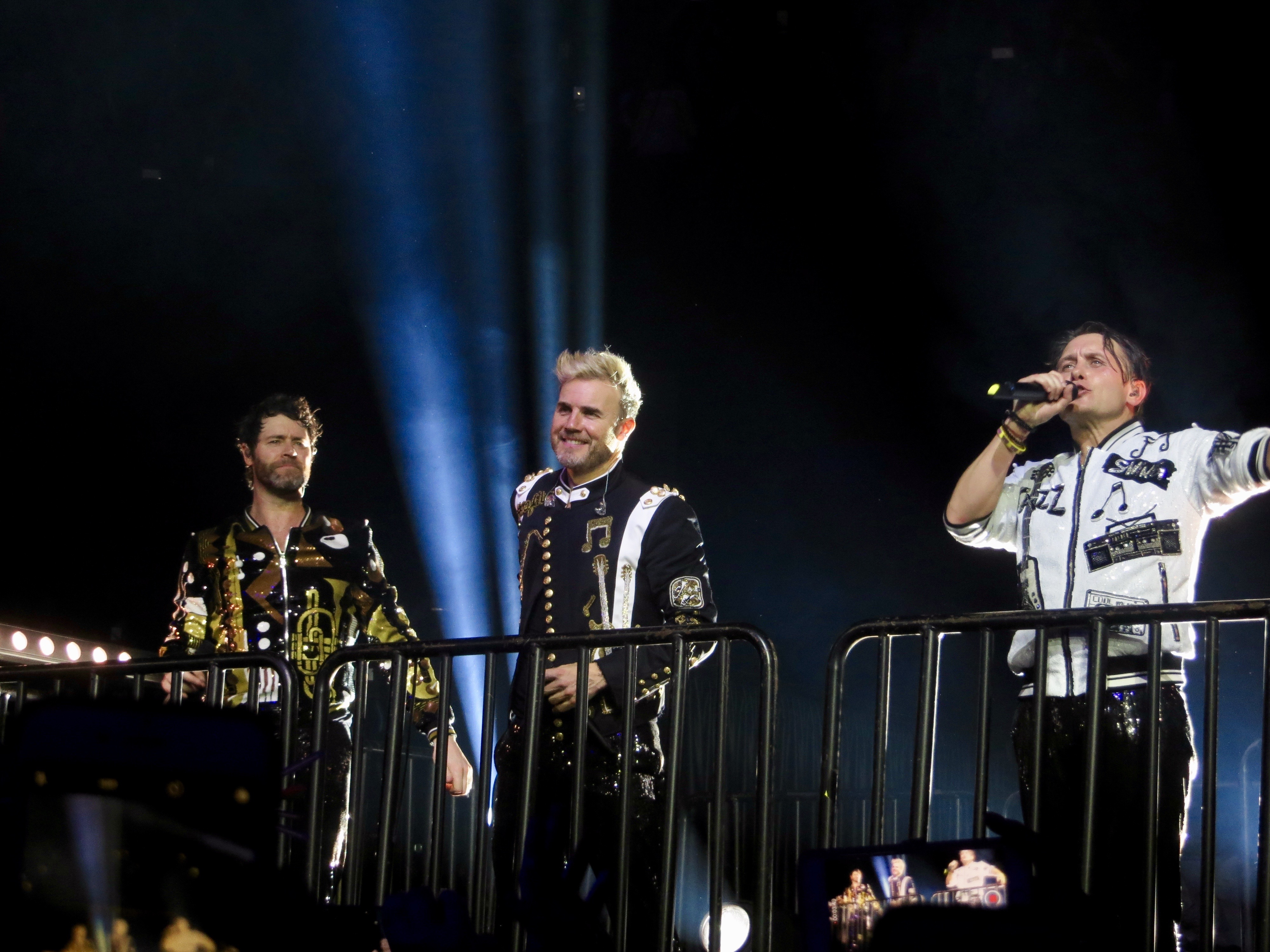 Take That performing at the SSE Hydro in Glasgow during their Wonderland Live tour in 2017